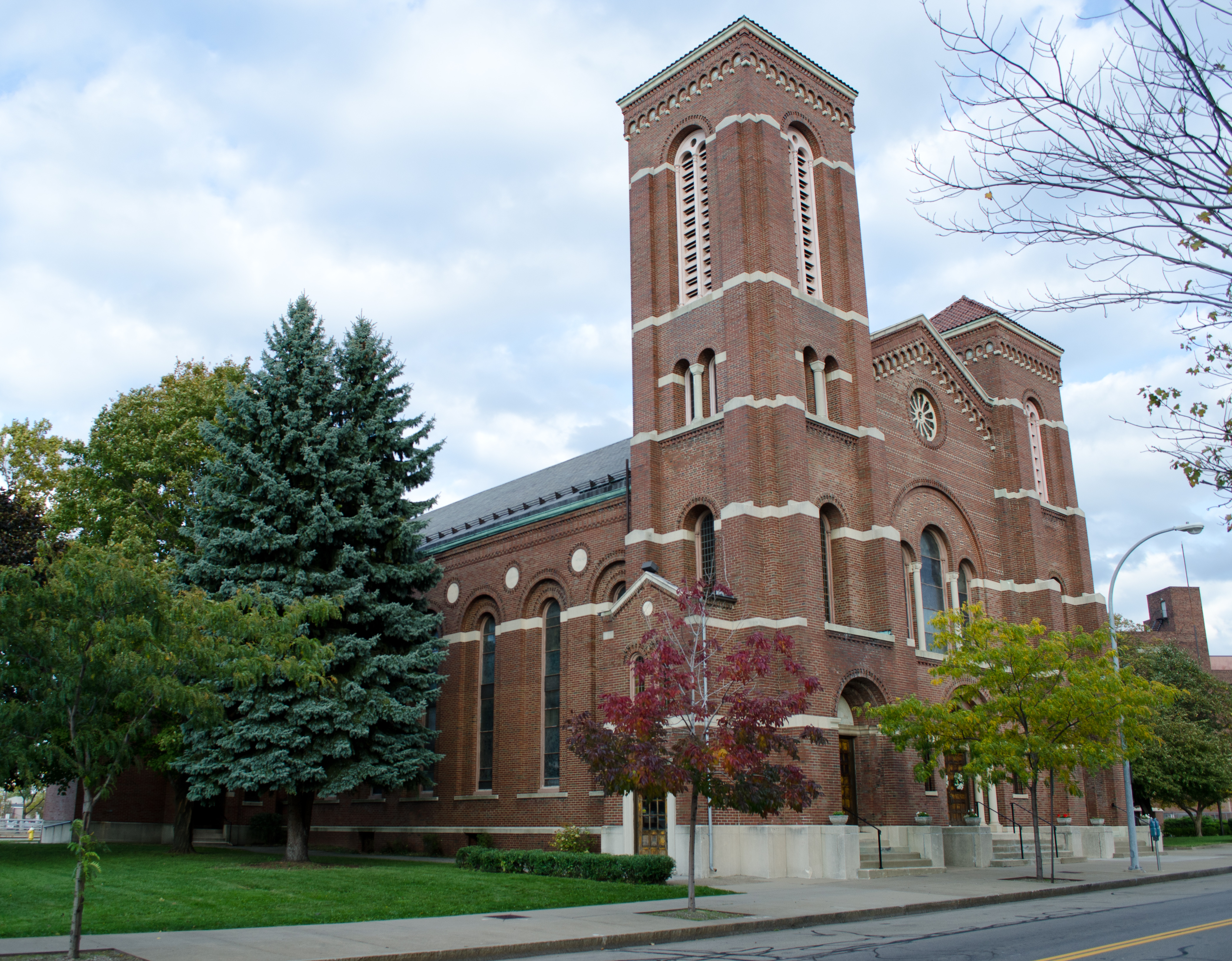 Main building of the German United Evangelical Church Complex in Rochester, New York.